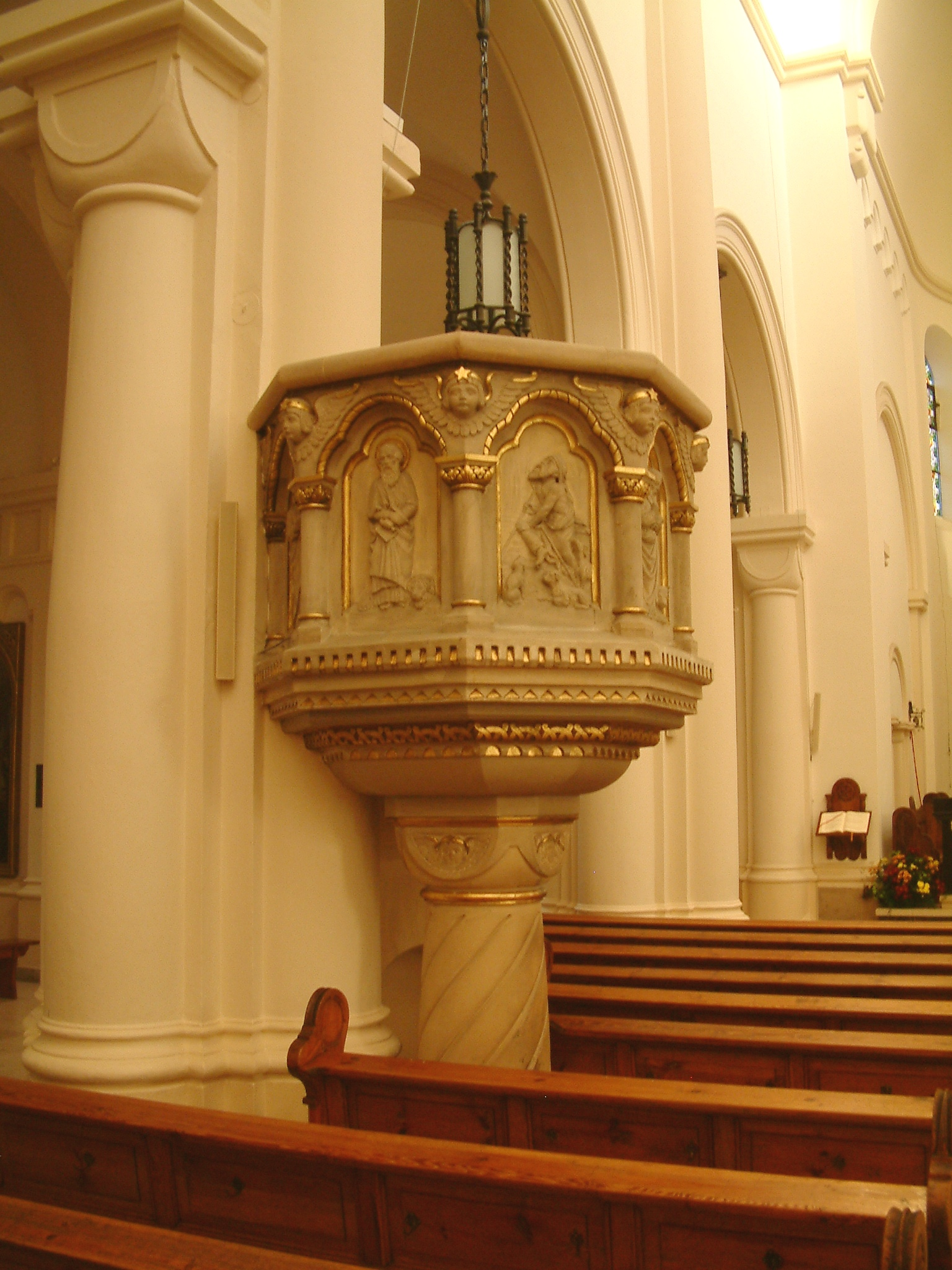 Church of Mother of Sorrow in Poznań, Pulpit